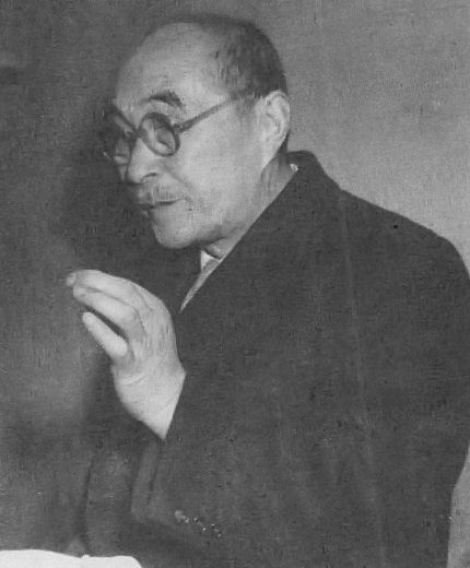 Kodo Nomura